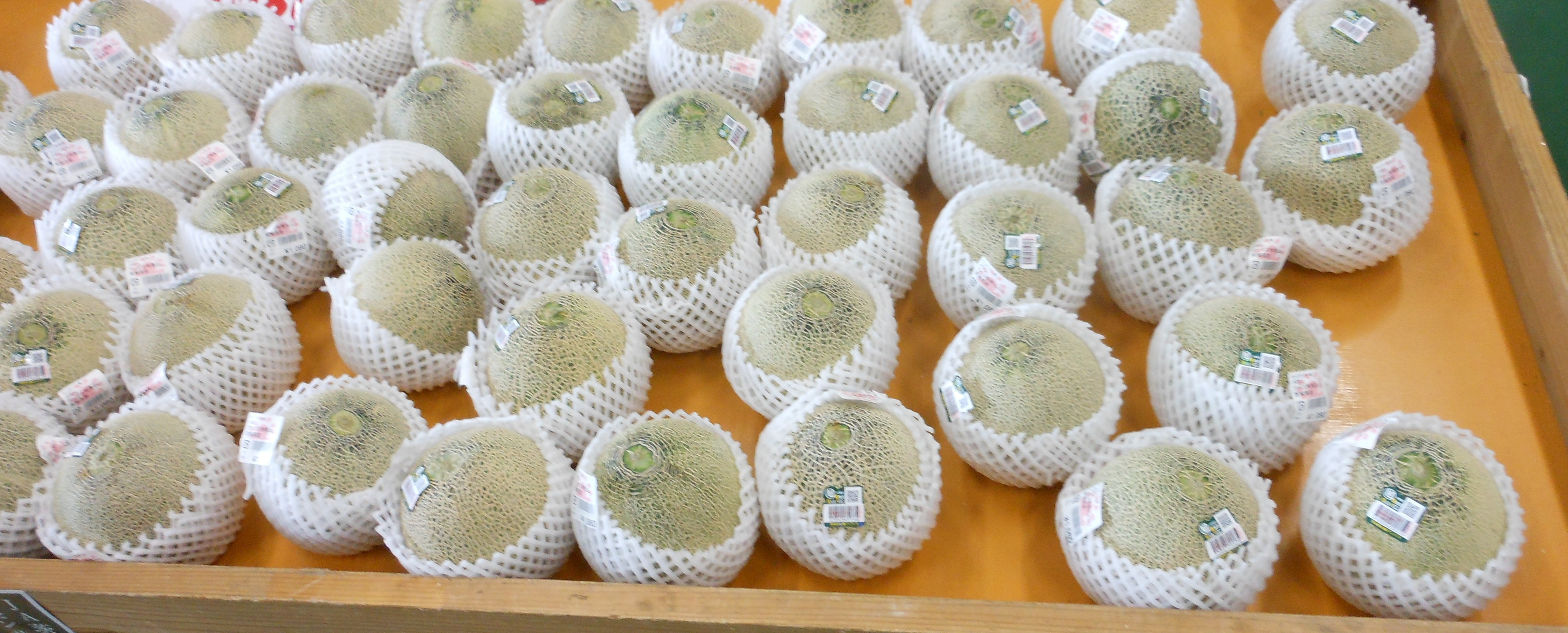 These are Andes Melons made in Hokota, Ibaraki, Japan. These were sold at Sun Green Asahi.